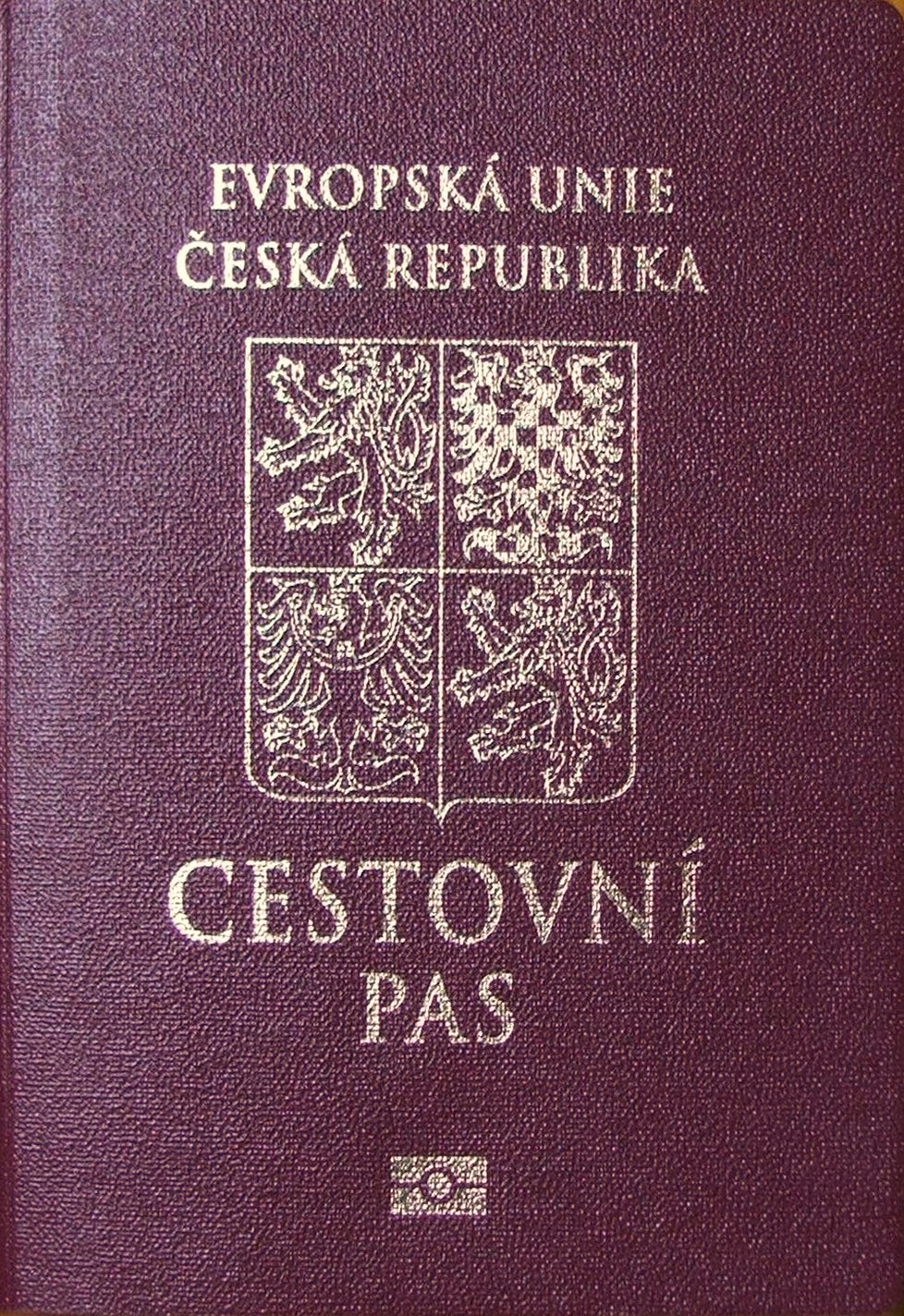 Biometric Passport of the Czech Republic issued in 2007